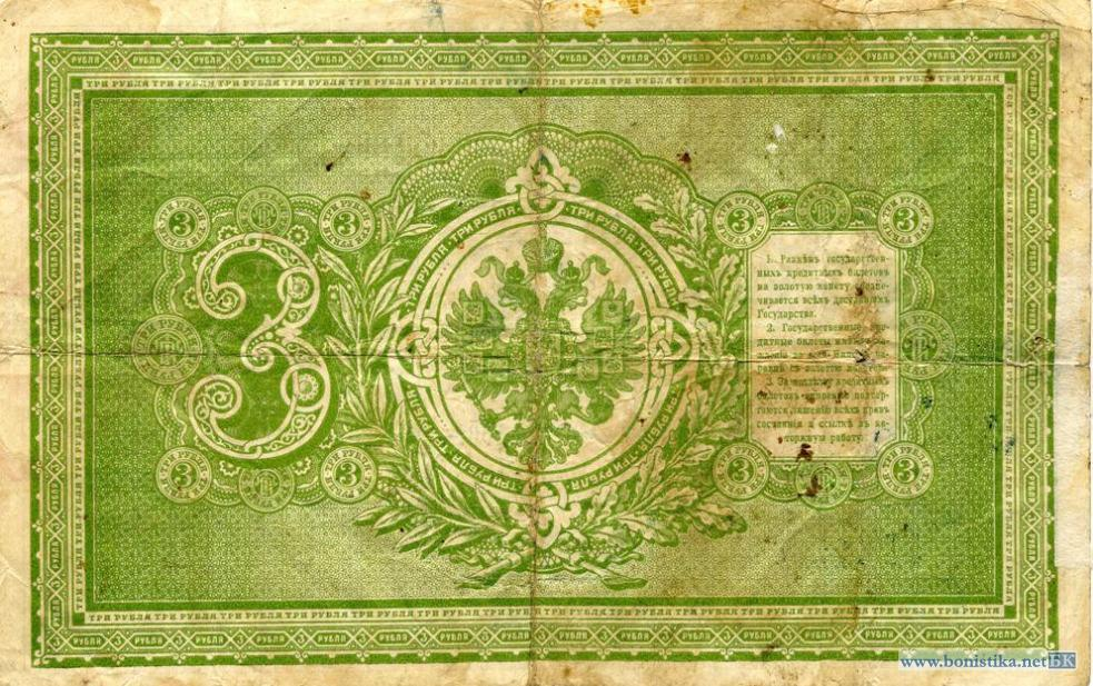 Russian Empire banknote 3 rubles version of 1898 year. Timashev